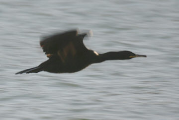 European Shag (Phalacrocorax aristotelis) in flight. Image created by Andrew Easton, 25th December 2004